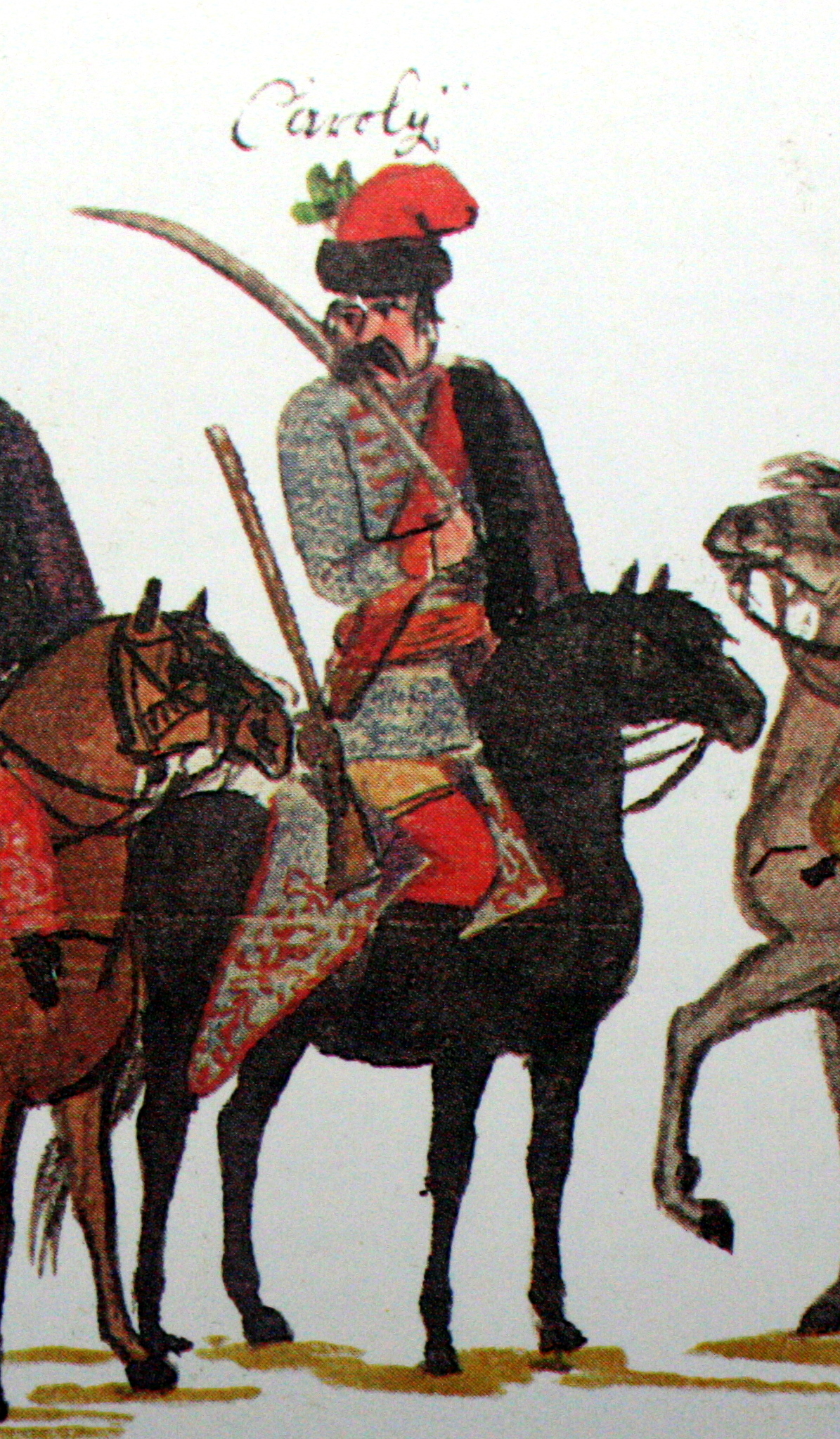 Károlyi Husar of the imperial army (Austria) 1734 Gudenus-Handschrift